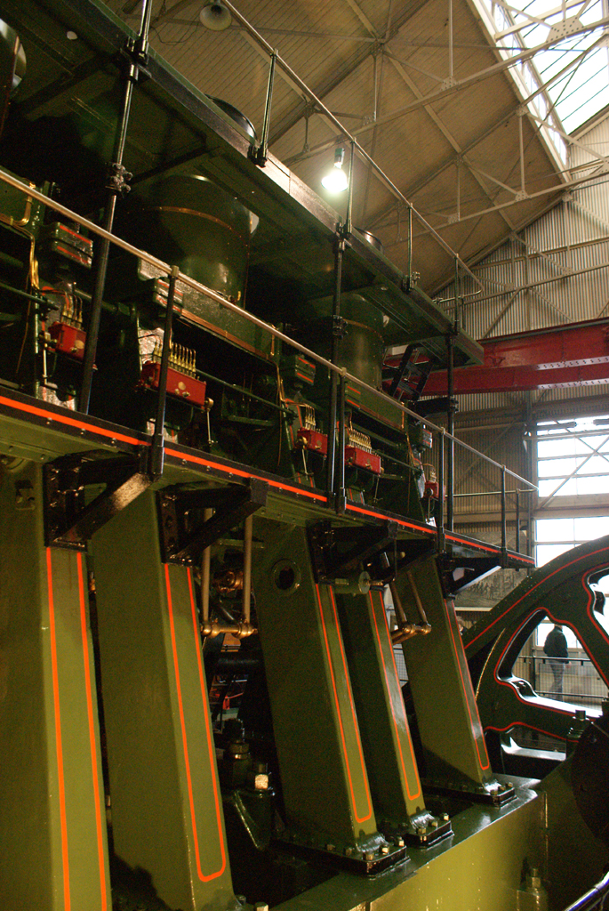 The River Don Engine is a 1905-built steam engine used for hot rolling steel armour plate. It is a 3-cylinder simple engine of 40 inches (1.0 m) diameter, 48 inches (1.2 m) stroke. At its operating steam pressure of 160psi, it developed 12,000 horsepower (8.9 MW), and was able to reverse from full speed in 2 seconds. When the engine is run it is quite amazing to watch it change direction within 2 seconds.